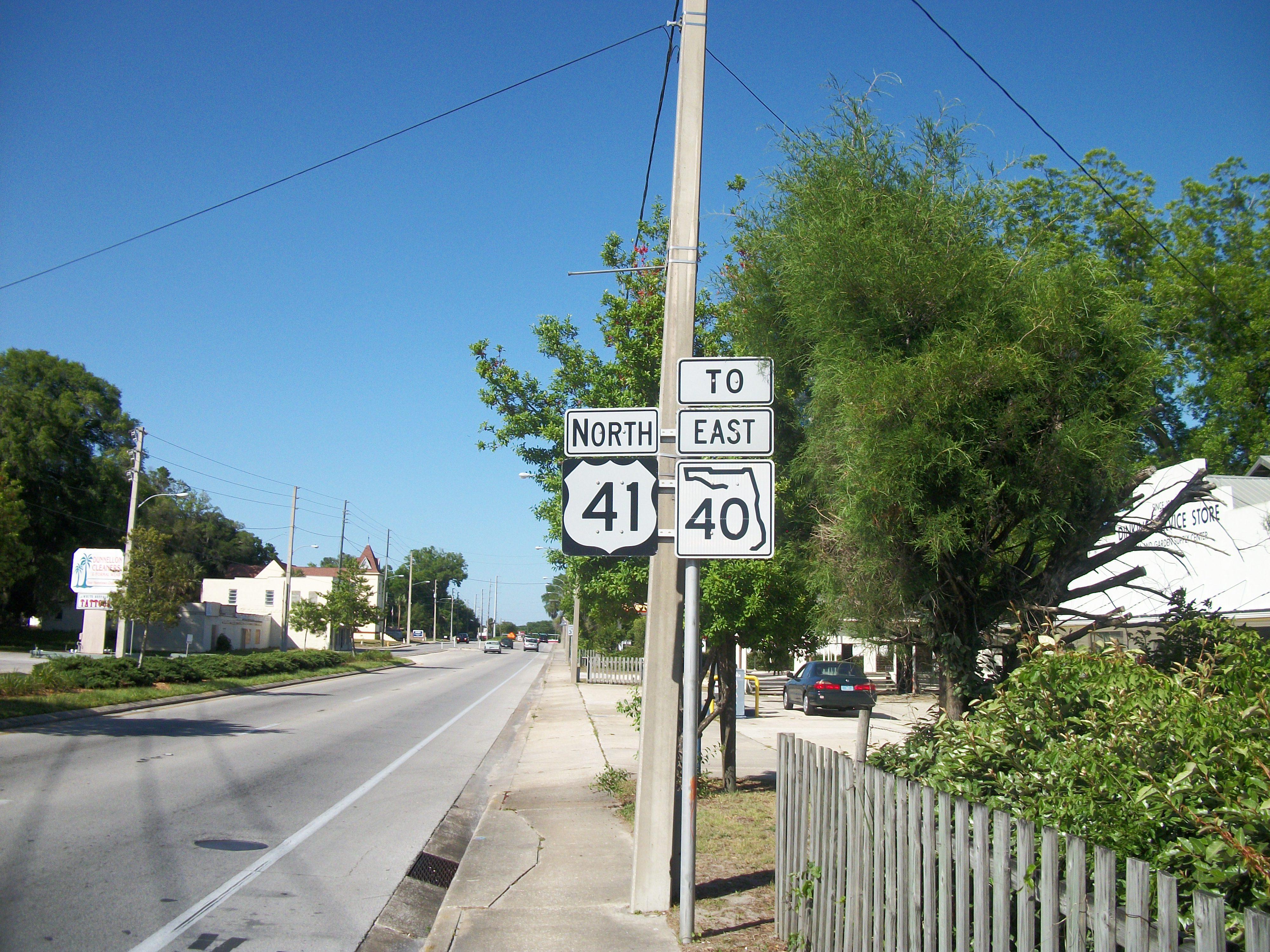 Sign along Northbound U.S. Route 41 in Dunnellon, Florida, that also points the way to Florida State Road 40 in Rainbow Lake Estates, Florida. Despite the fact that the sign claims it's "TO EAST FL SR 40," the truth is that legally SR 40 is already a hidden state road shared with US 41 and hidden Florida State Road 45. This sign just happens to be north of the terminus of Marion County Road 40, a bi-county extension of SR 40 leading to Inglis and Yankeetown in Levy County, Florida.